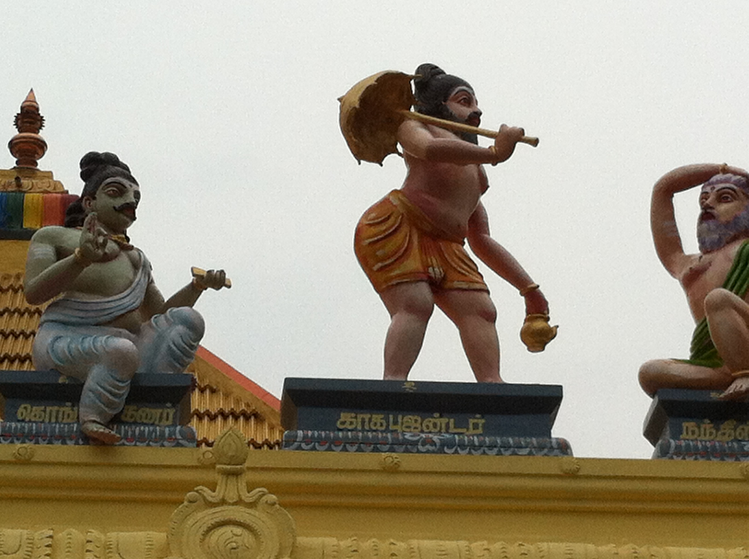 Sri Pujandar